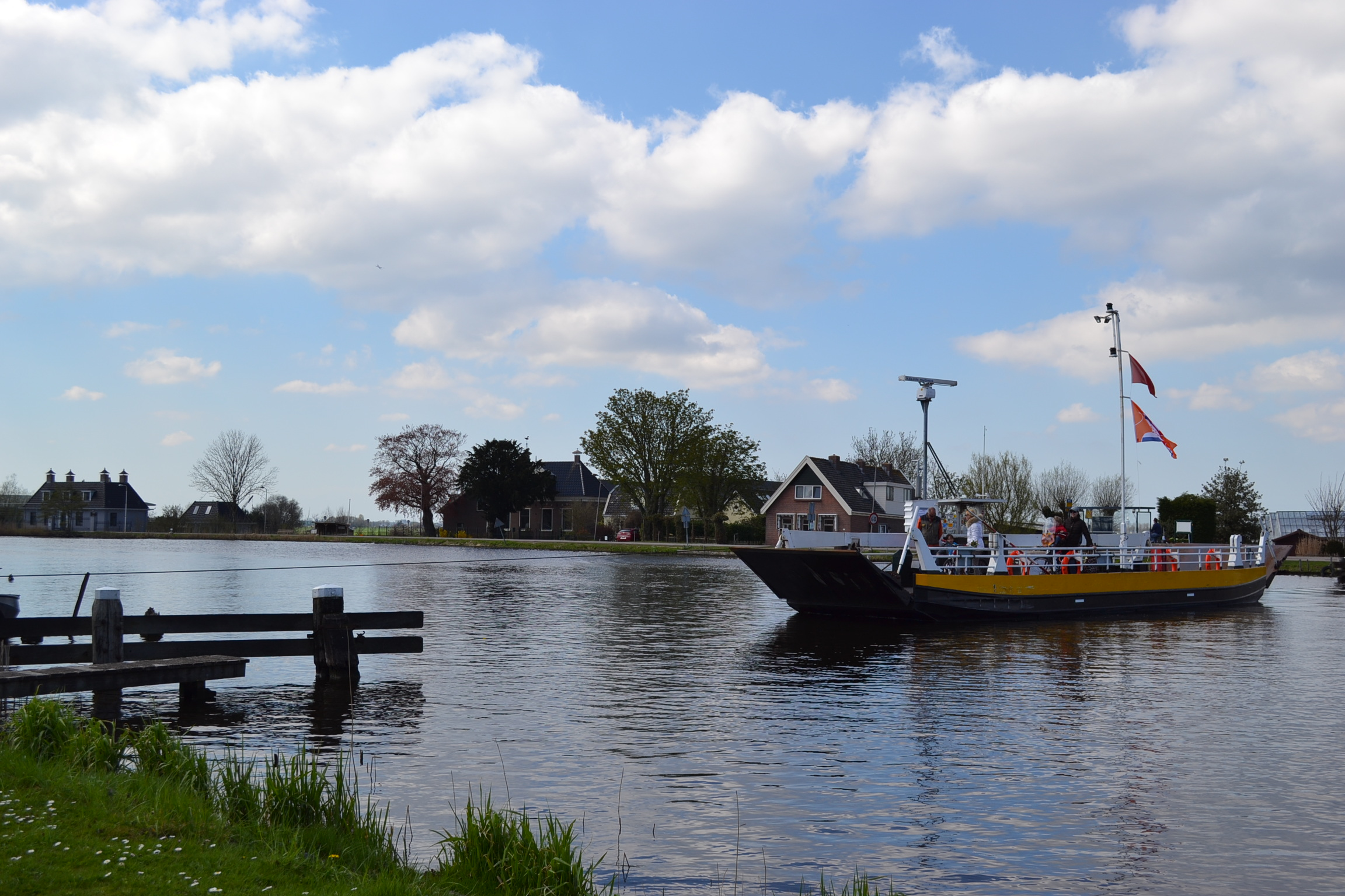 Ferry across the river Amstel at Nessersluis